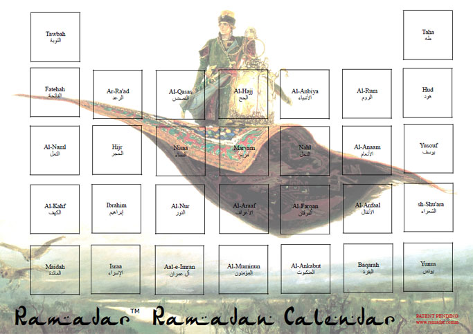 The Flying Carpet